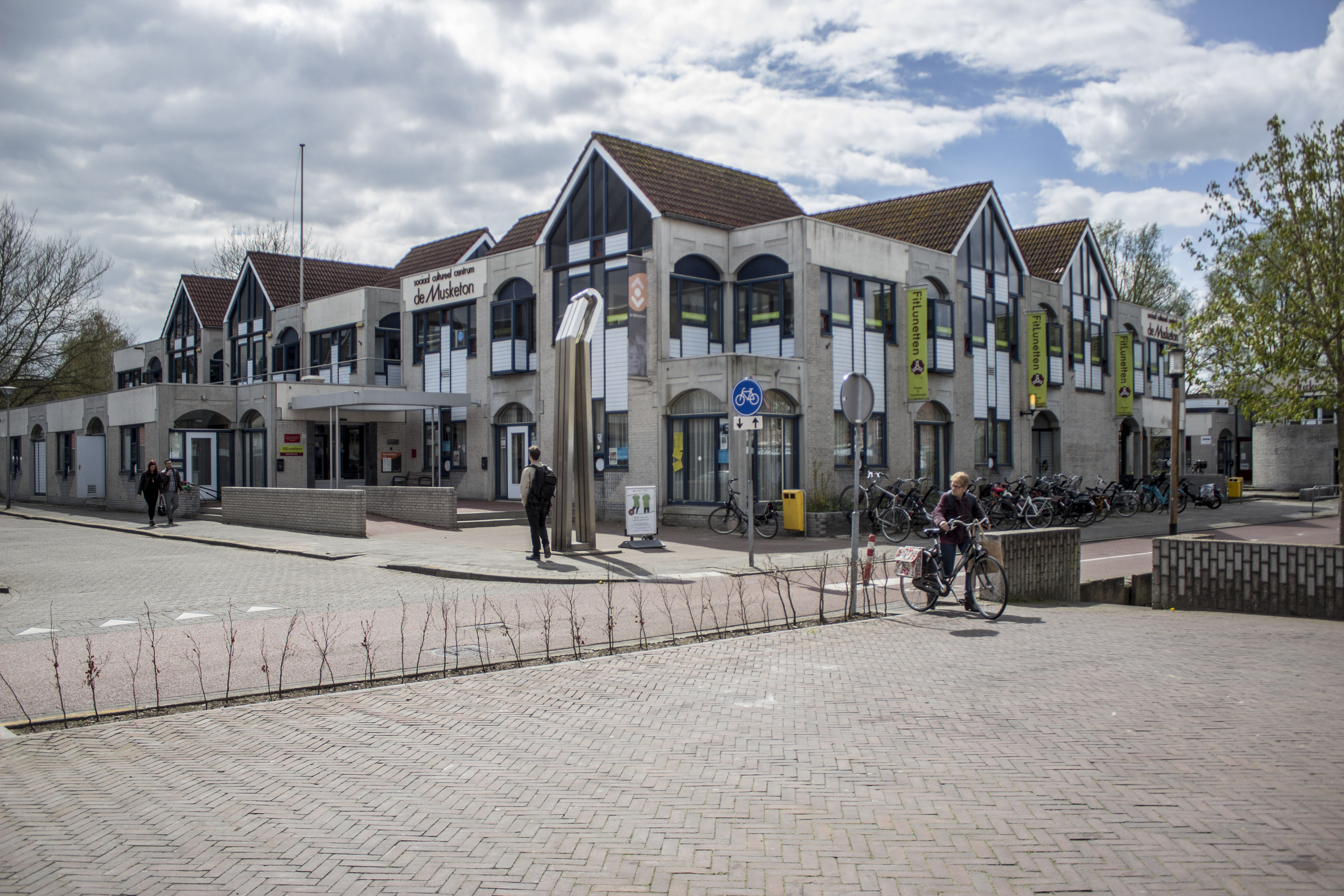 Het sociaal-cultureel centrum de Musketon in Lunetten, Utrecht